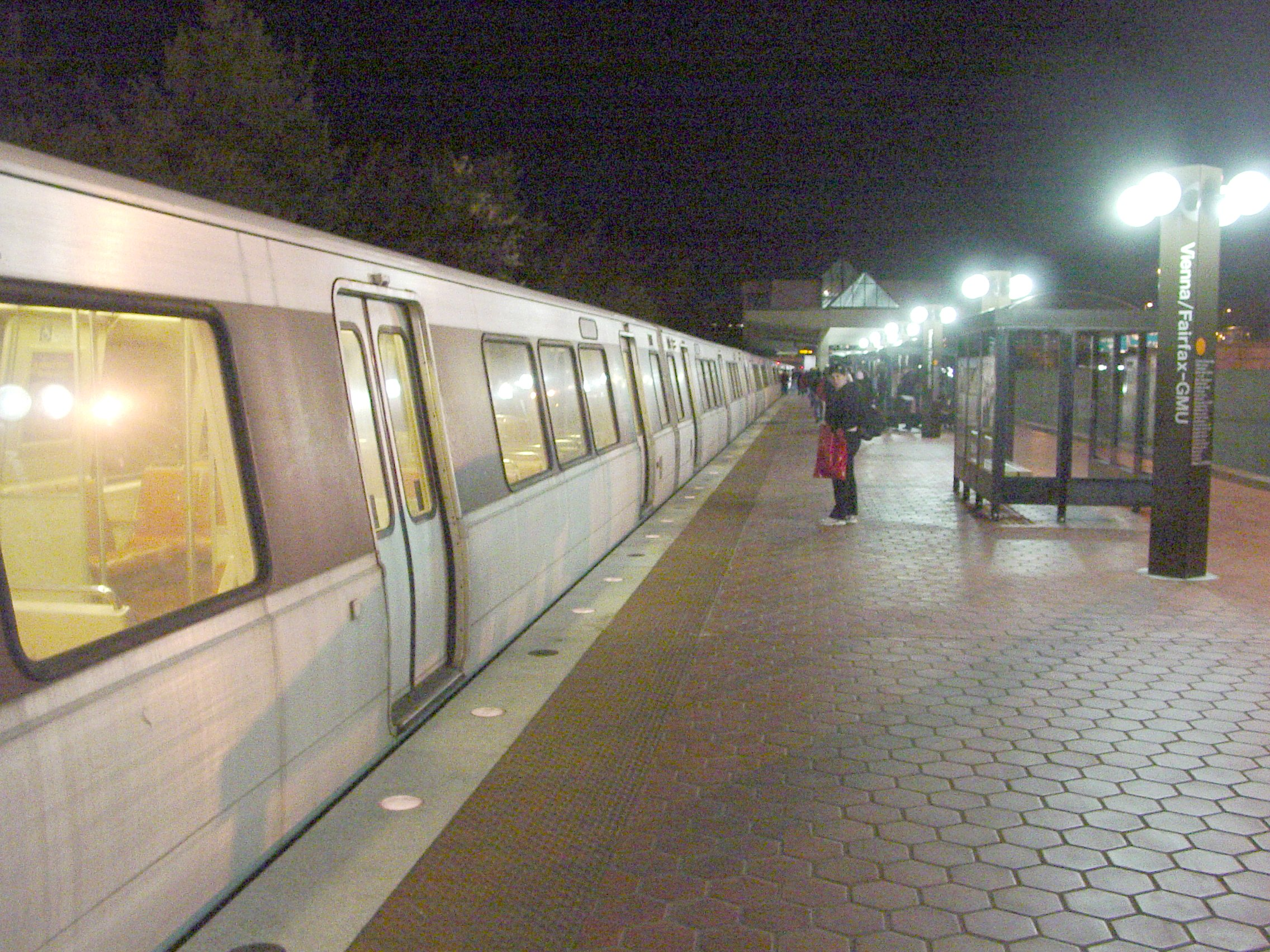 An eight car train is berthed at the platform at Vienna/Fairfax-GMU.